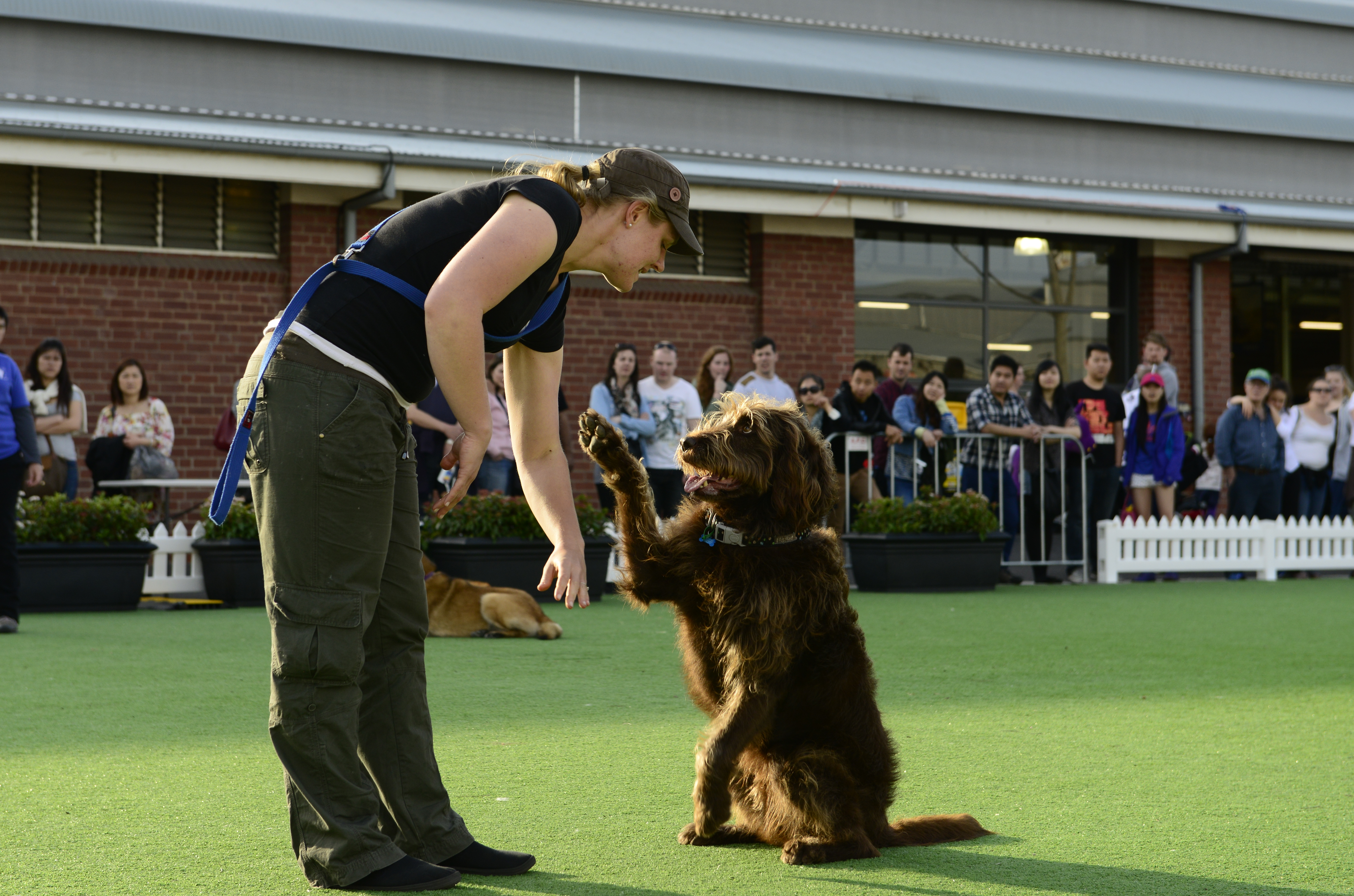 Labradoodle named "Snickers" and handler Heidi.